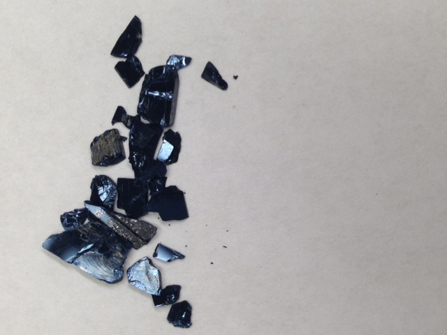 sample of potassium-molybdenum blue bronze (old sample in my office)